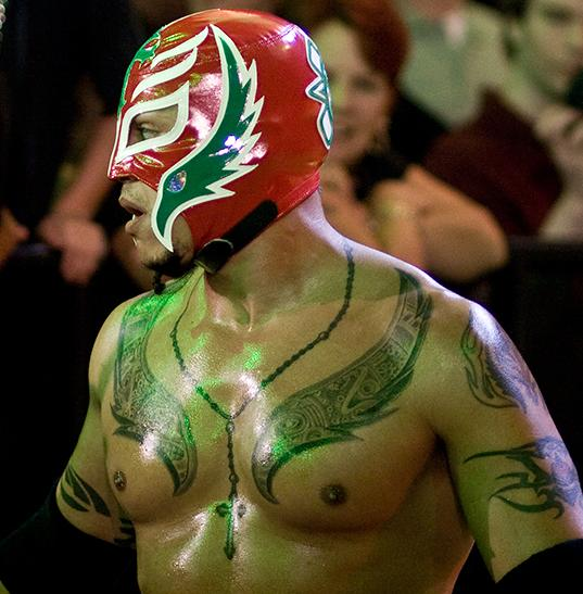 Rey Mysterio WWE Monday Night Raw 800th Tampa